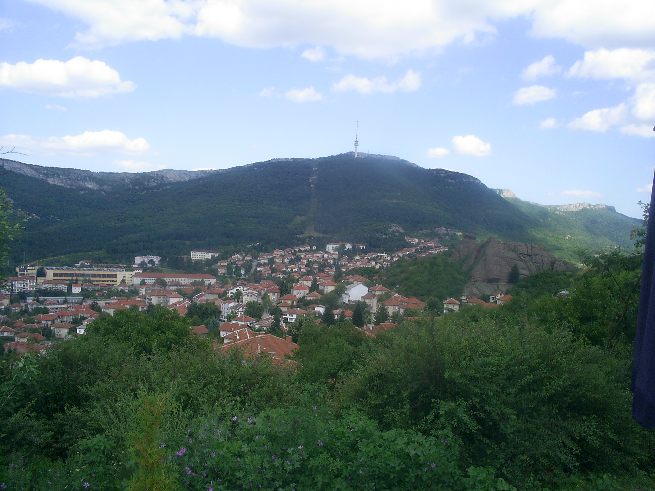 View towards Belogradchik, Bulgaria